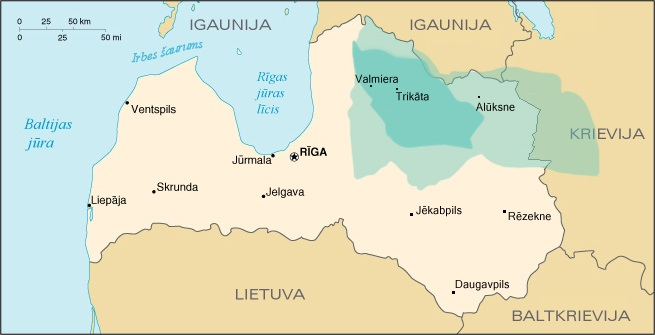 Latgalian state of Tālava and it's border speculations. 12-13th century.